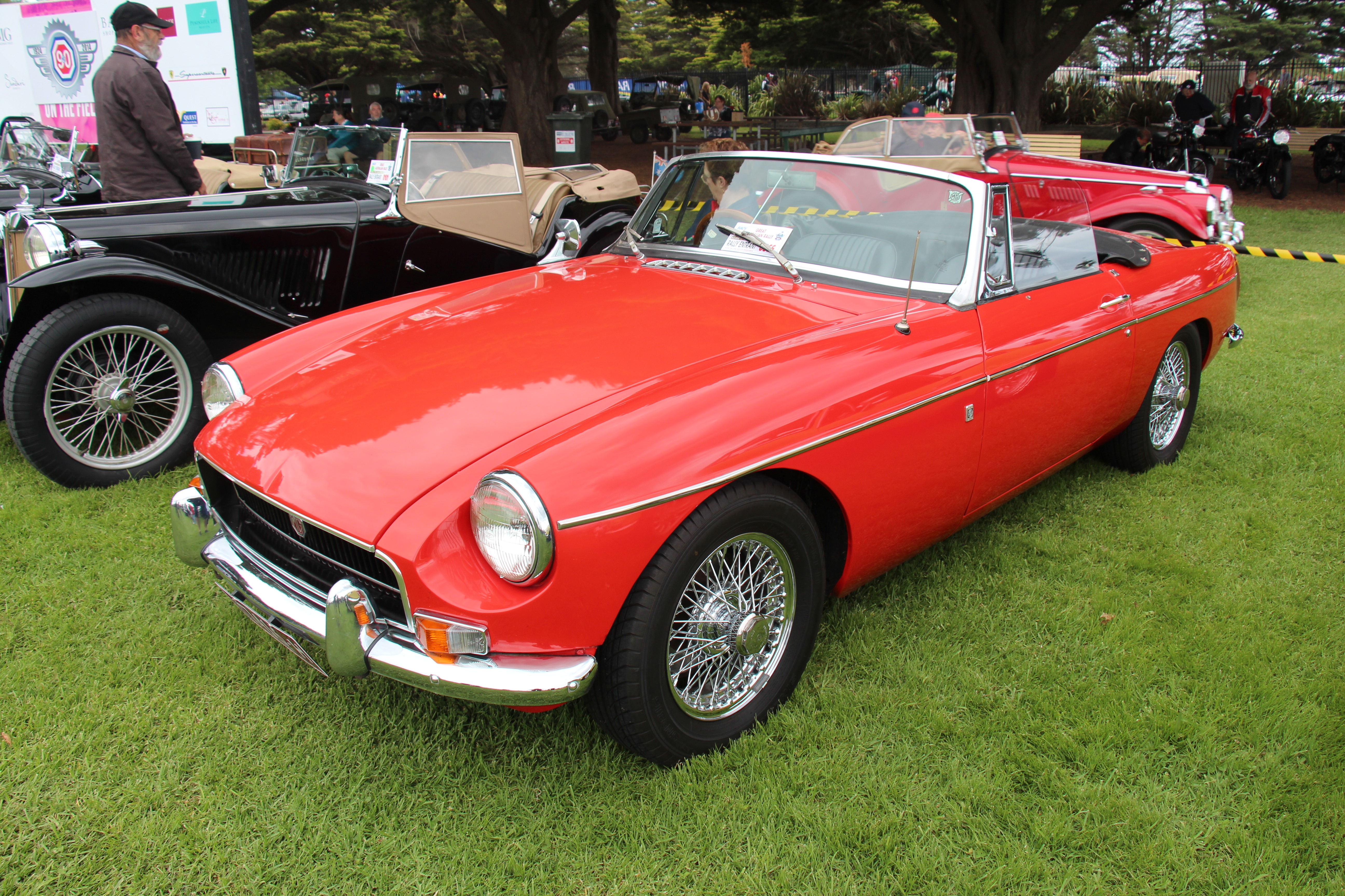 In 1962 the MGA was replaced by the MGB, getting a redesigned lighter body and chassis giving it more space. It was also a better handling car. In England the Mk I was made from 1962-67, also assembled in Australia from 1963-72. Originally only available as a Roadster Engine; 1798cc 4 cyl with twin SUs, 1965 MGB GT Hardtop 2+2 Coupe available with hatch back 1967 Mk II got a few mechanical upgrades including a new gearbox causing the floor pan to be changed. and the 6 cyl MGC available; 145hp 2912cc Austin 1970 saw split rear bumpers with the number-plate in between 1971 saw a new front grille, recessed, in black aluminium. 1972 Mk III and the more traditional-looking polished grille returned with a black honeycomb insert. 1973 MGB GT V8 available 137hp 3528cc aluminium Rover V8 1974 A new, steel-reinforced black rubber bumper at the front incorporated the grille area and a matching rear bumper